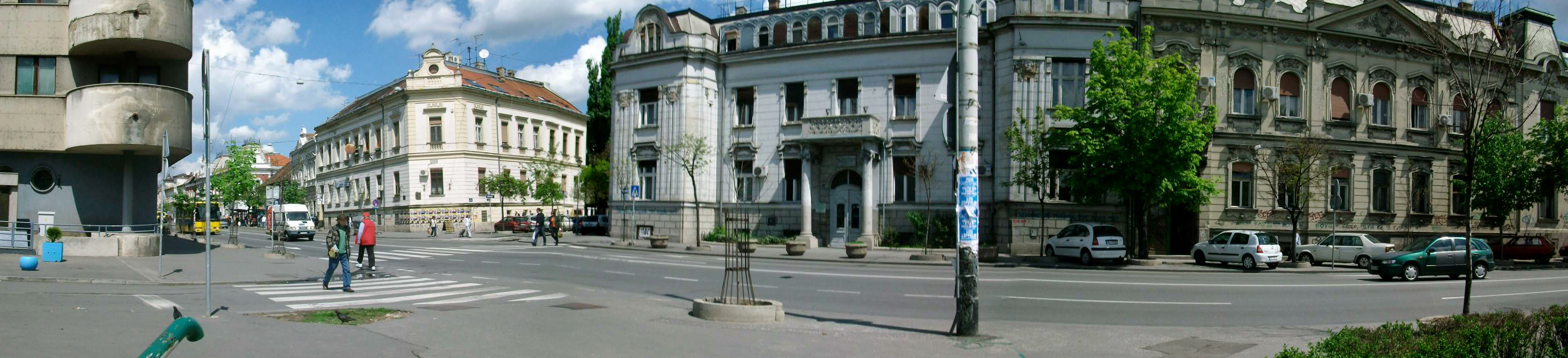 VIew from Avijaticarski trg onto Glavna ulica